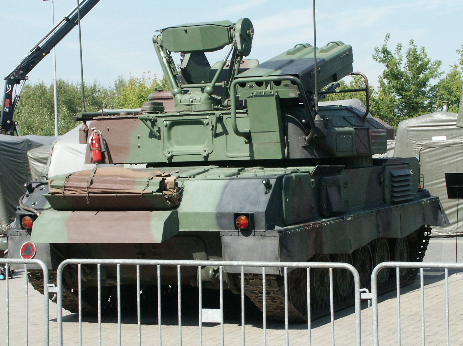 ZSU-23-4MP Biała - Polish modification of ZSU-23-4.